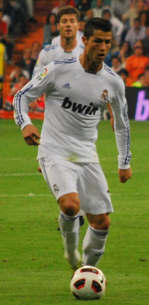 Cristiano Ronaldo at 21st September,2010.